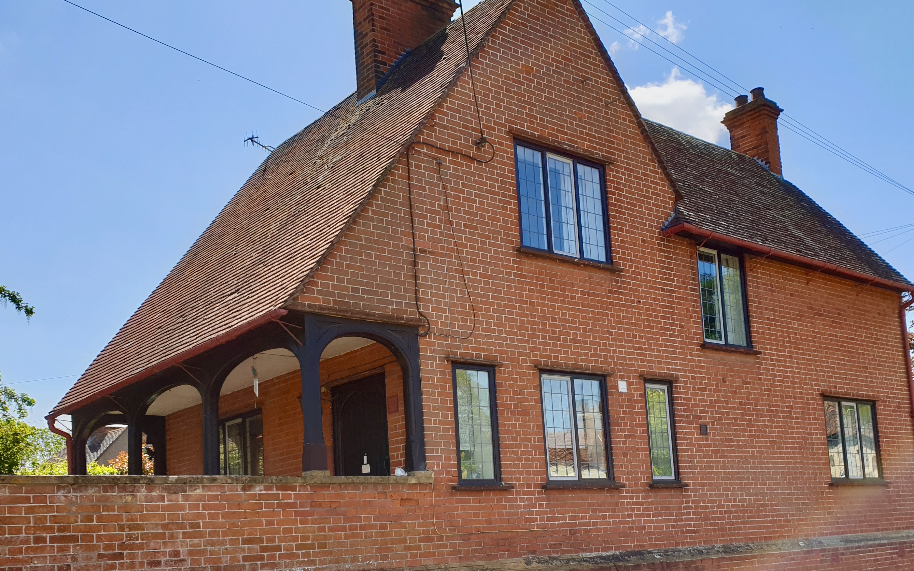 Grade II Listed Matron's accommodation at Sidney Hill Cottage Homes, Churchill, Somerset